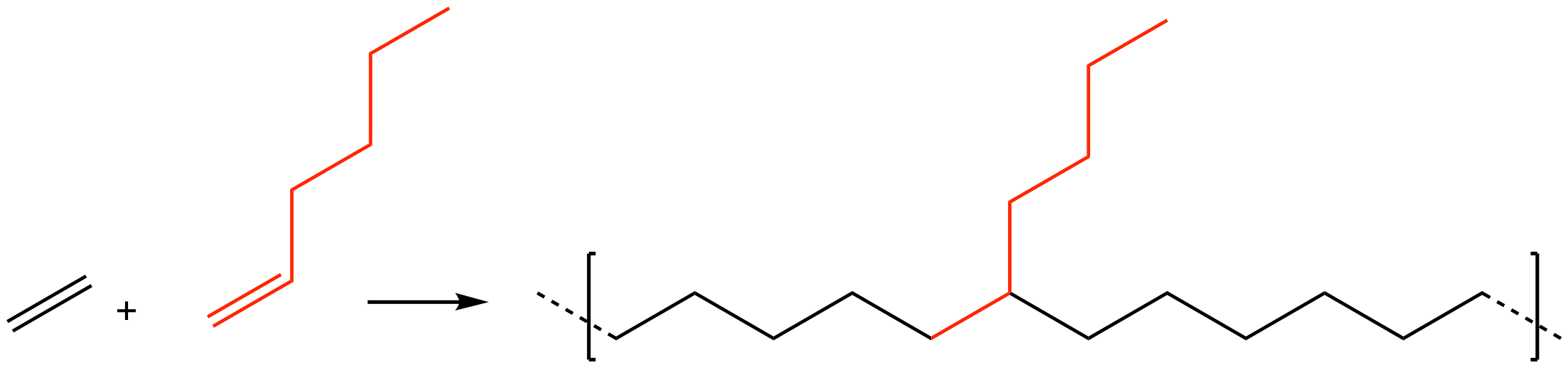 structure of subunit of 1-hexene/ethylene copolymer